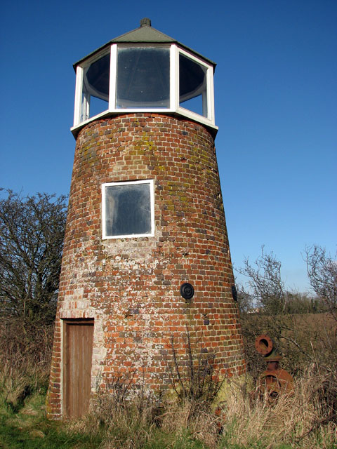 Roland Green's Mill This small red-brick tower mill on the edge of Hickling Broad is named after one of its former owners. The mill is located on private land which was accessed with permission of the land owner.